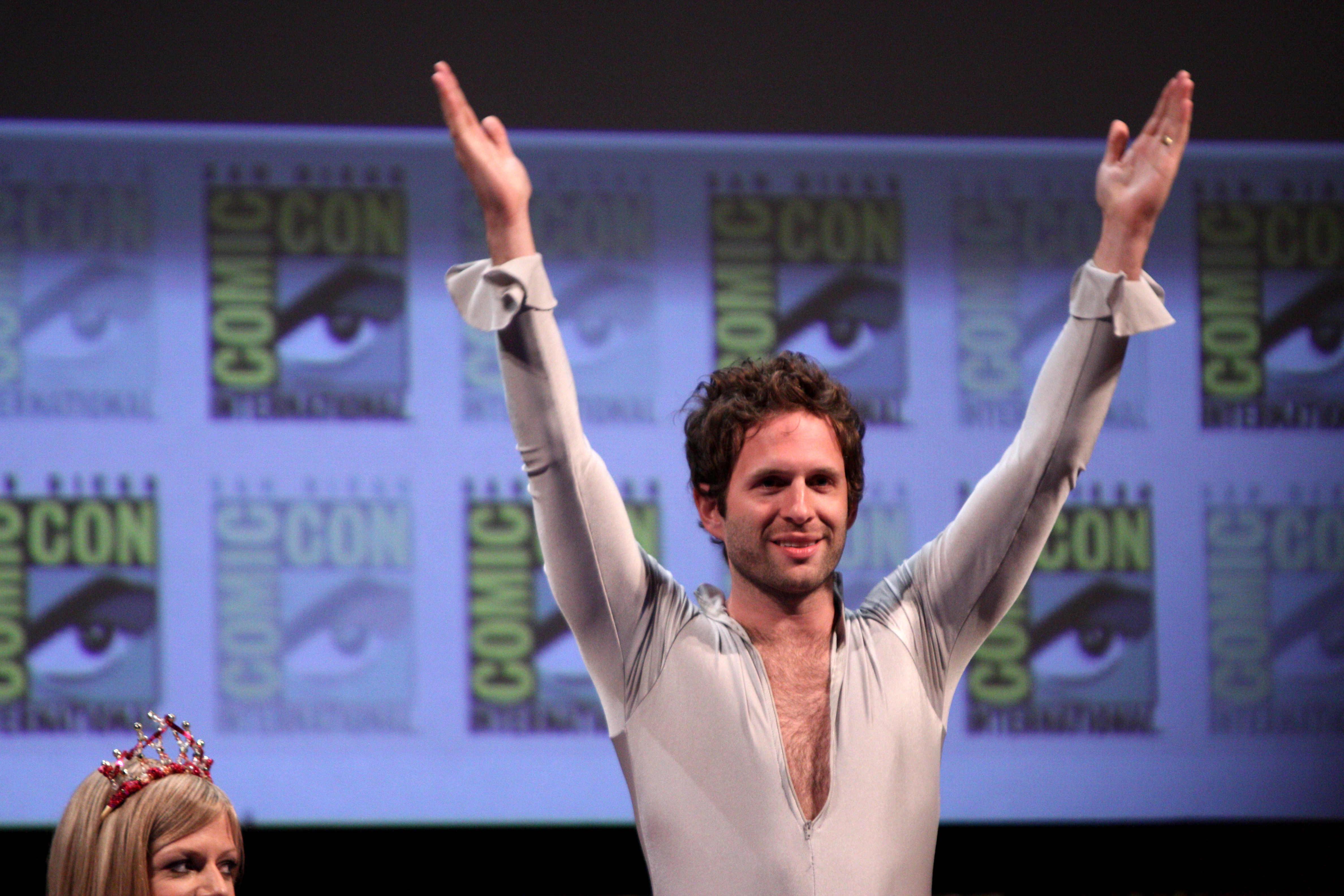 Glenn Howerton at the 2011 San Diego Comic-Con International in San Diego, California.